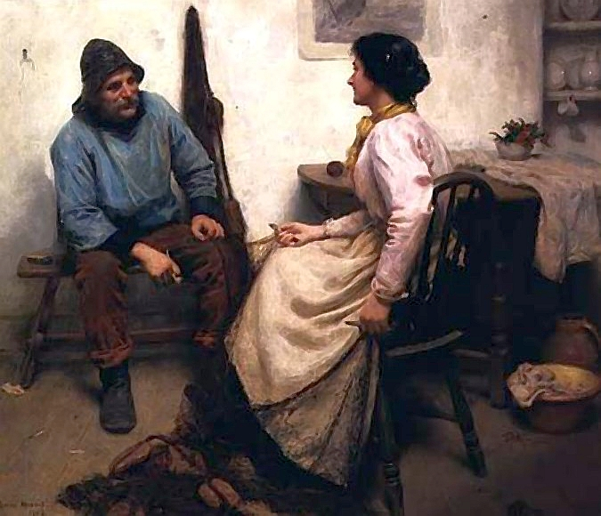 Mending The Nets